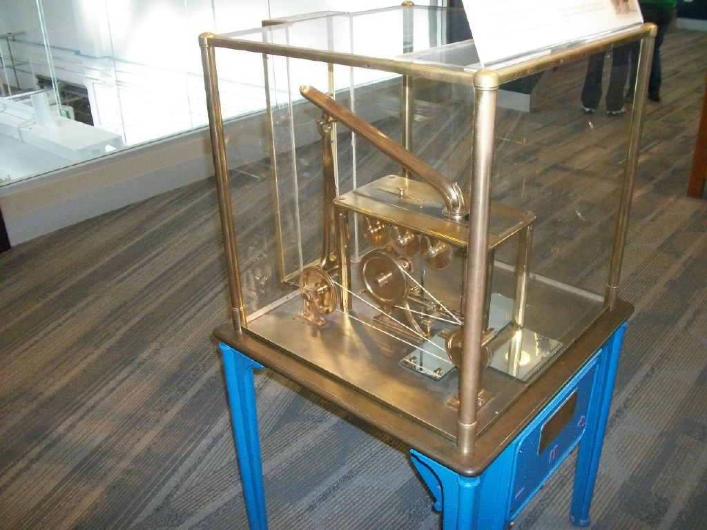 A display at the Mint, Canberra, Australia.